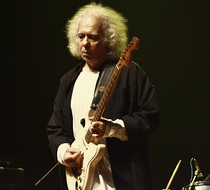 Tony Babalu is representative of the second generation of Brazilian guitar players. Composer, arranger, producer, director and guitarist, he's, according to the journalist Okky de Souza, "one of the most complete Brazilian guitarists, capable of shining in all genres linked to Pop and also of diving deeper into the priceless heritage of the Bluesmen who shaped the sound of the twentieth century".